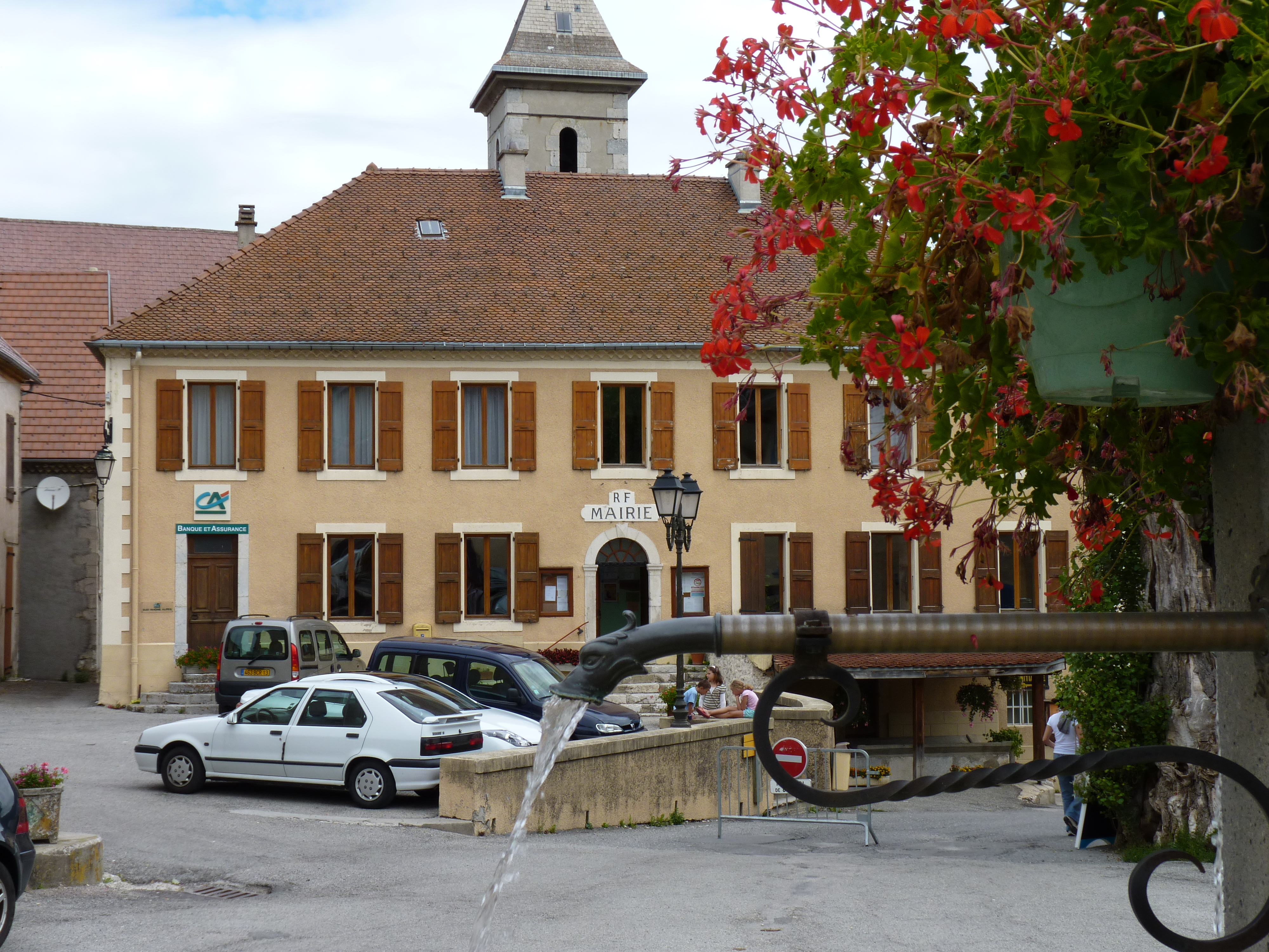 Town hall of Lus la croix haute (Drôme,France,Western-europ)